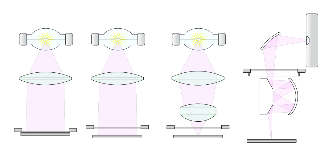 Simple model of 4 types semiconducter lithography lighting